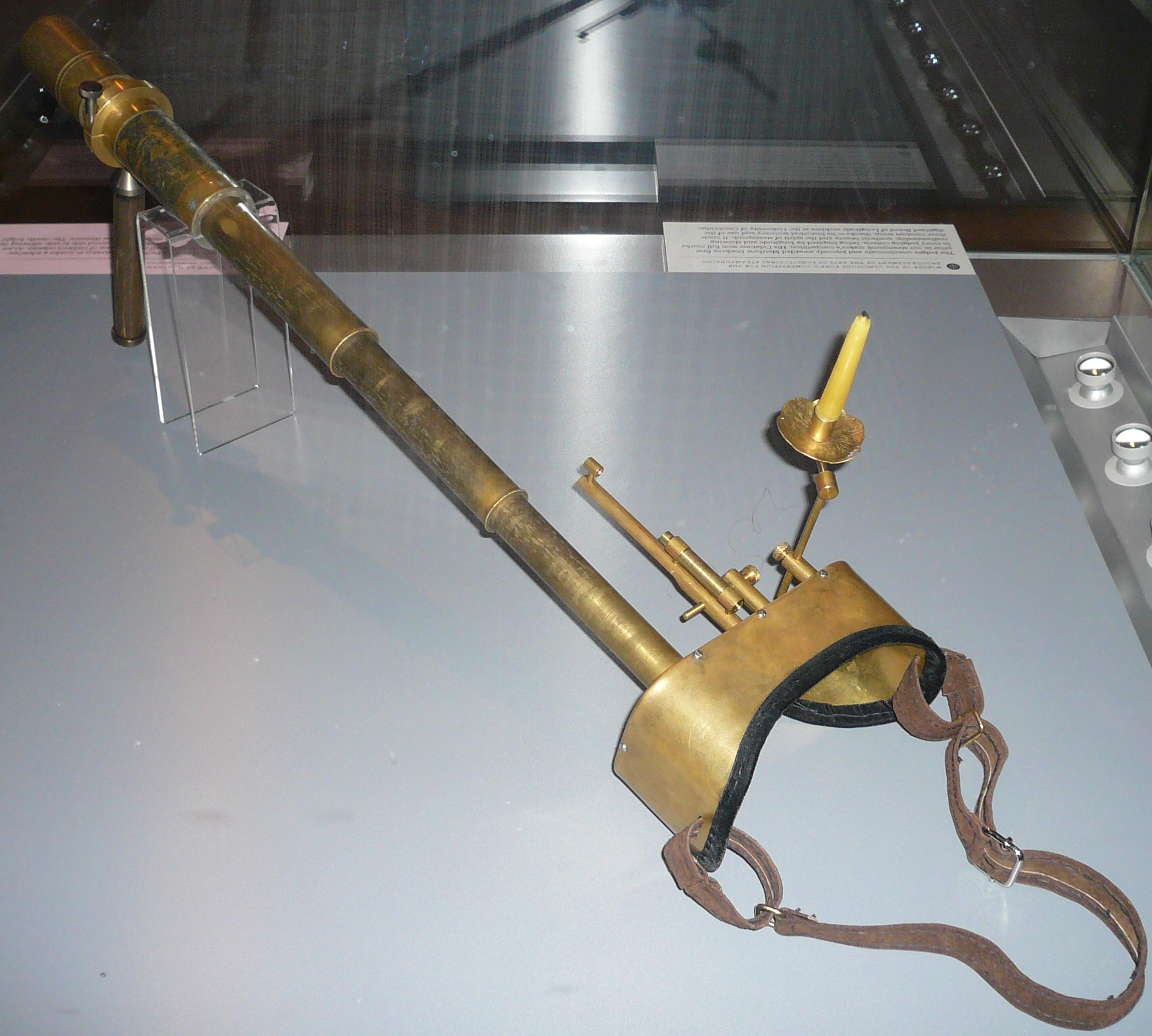 Celatone by Matthew Dockrey. Brass and steel, antique spyglass. An interpretation of Samuel Parlour's 'apparatus to render a telescope manageable on shipboard', itself a reinvention of Galileo's celatone. As per Parlour's original design, the finder can be moved side to side, allowing the wearer to position it to match their interocular distance. The candle height is also adjustable. Museum at the Royal Observatory, Greenwich, UK.